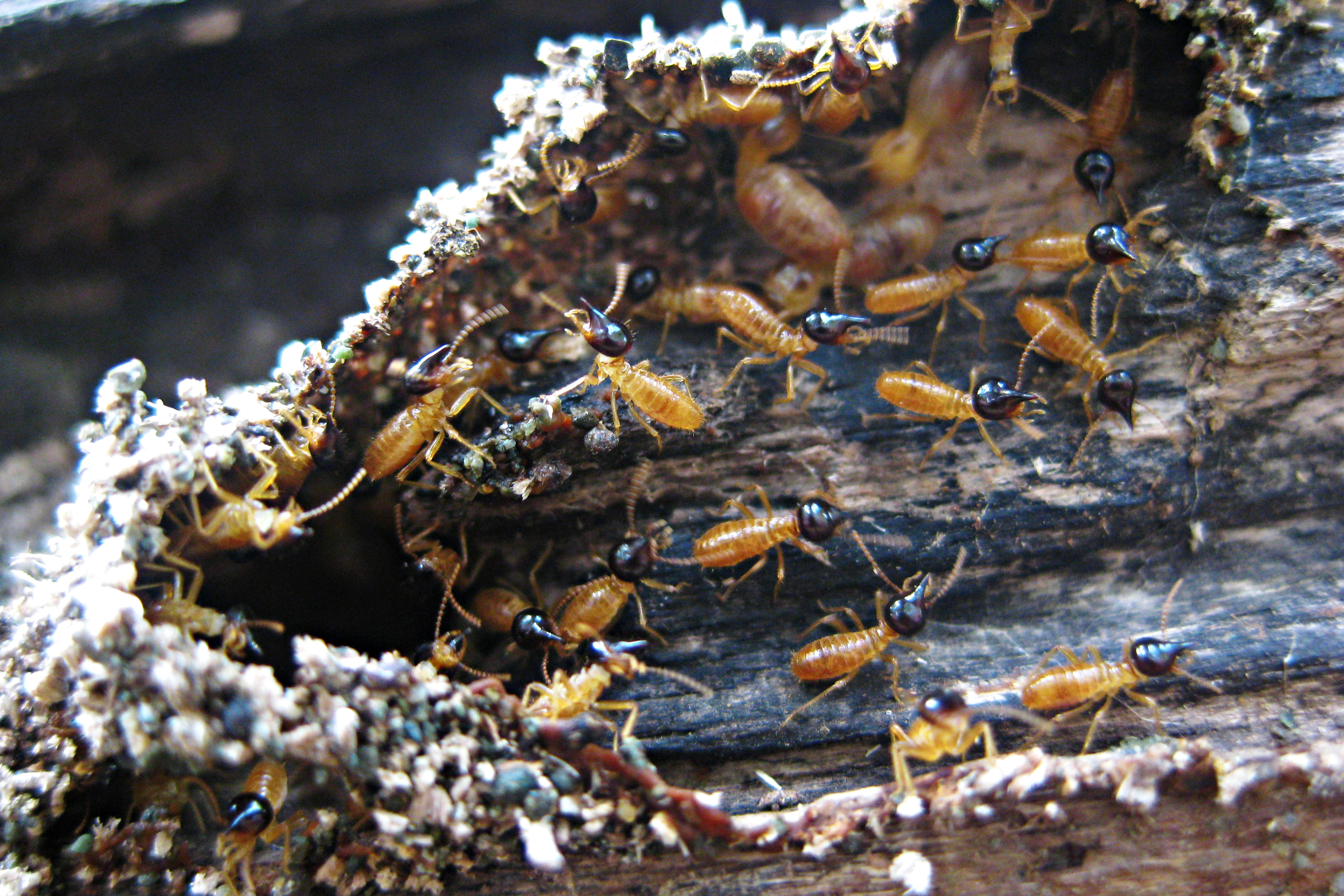 Nasute termite soldiers on a rotting log